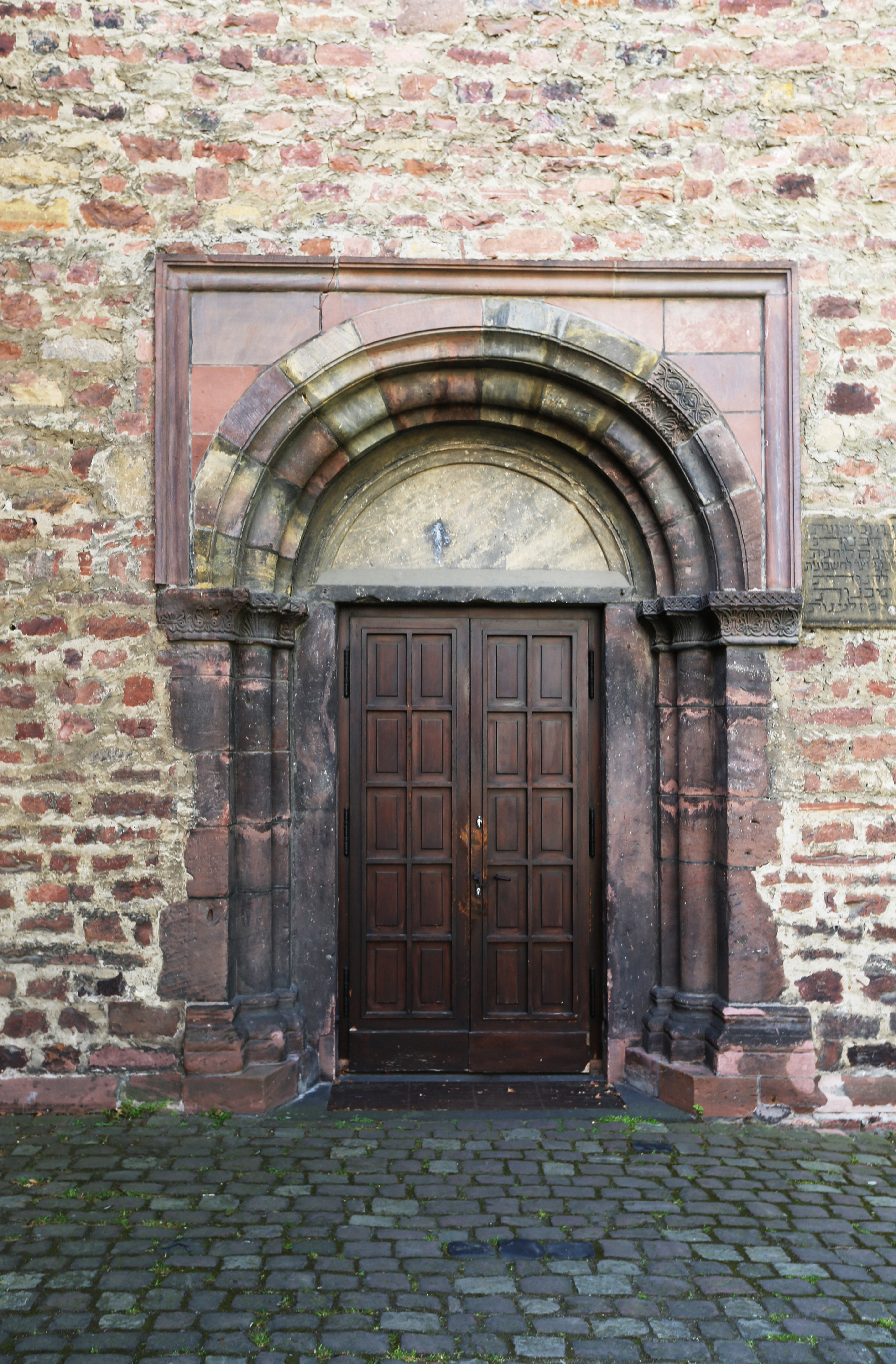 Synagogue Worms. Place of synagogue Worms 12, Rhineland-Palatinate, Germany